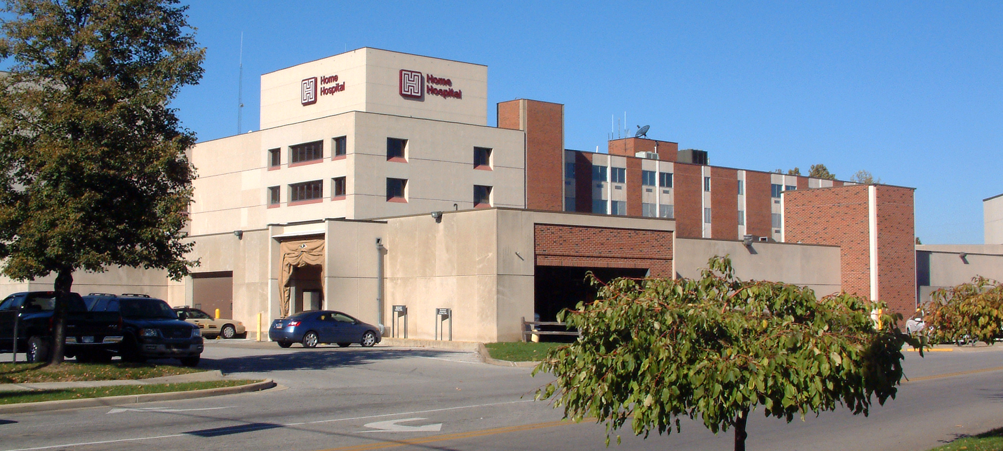 The east side of Lafayette Home Hospital in Lafayette, Indiana, viewed from near the intersection of 26th Street and South Street.